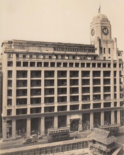 A photo showing the Gloucester Hotel and the nearby tram track on the Des Voeux Road Central